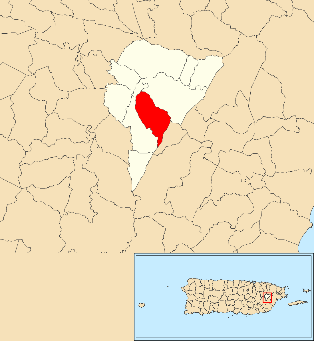 Ceiba Sur, Juncos, Puerto Rico locator map